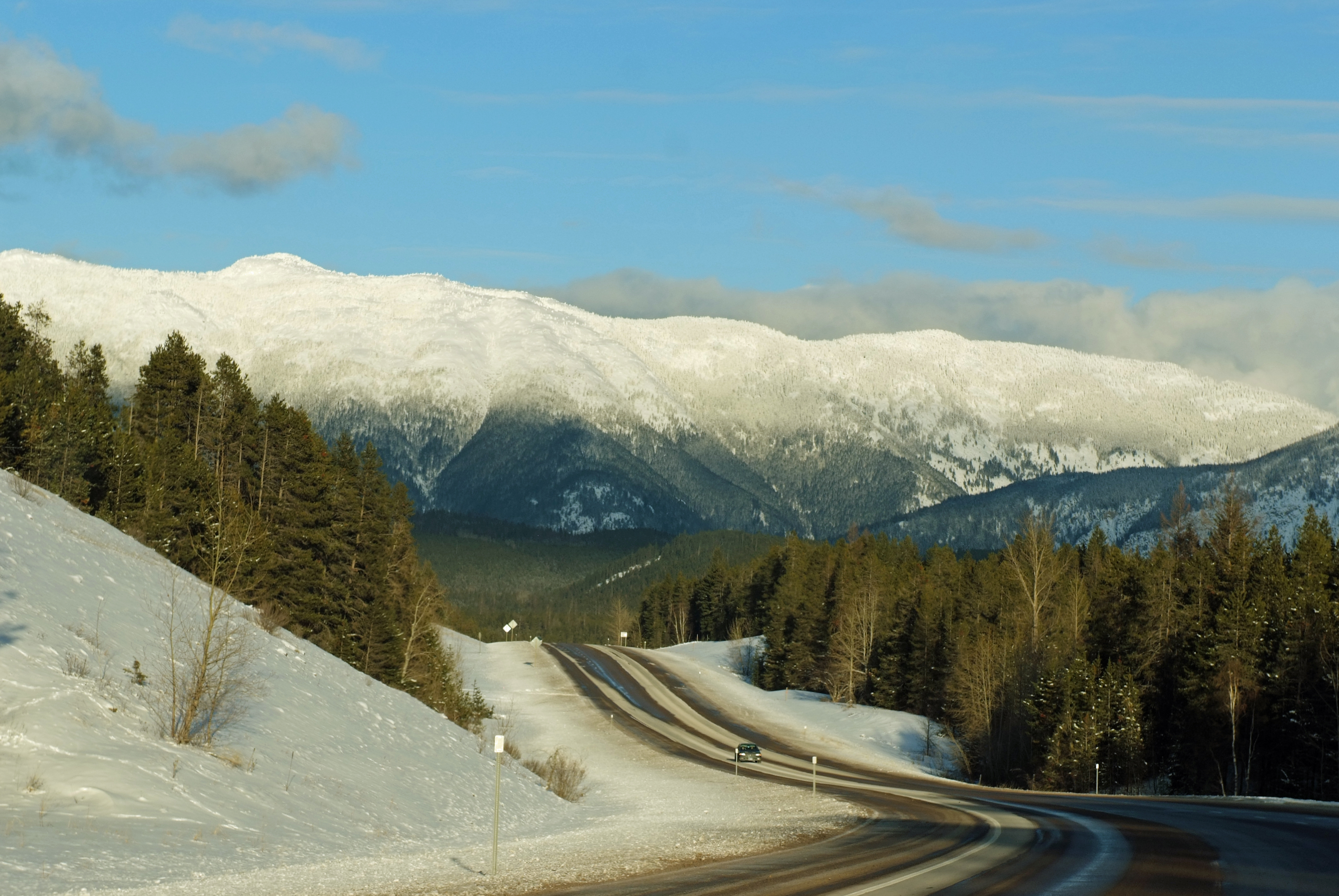 US 2 between Columnia Falls and West Glacier, Montana